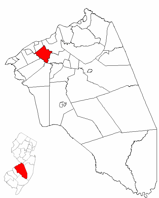 Map of Burlington County highlighting Willingboro Township